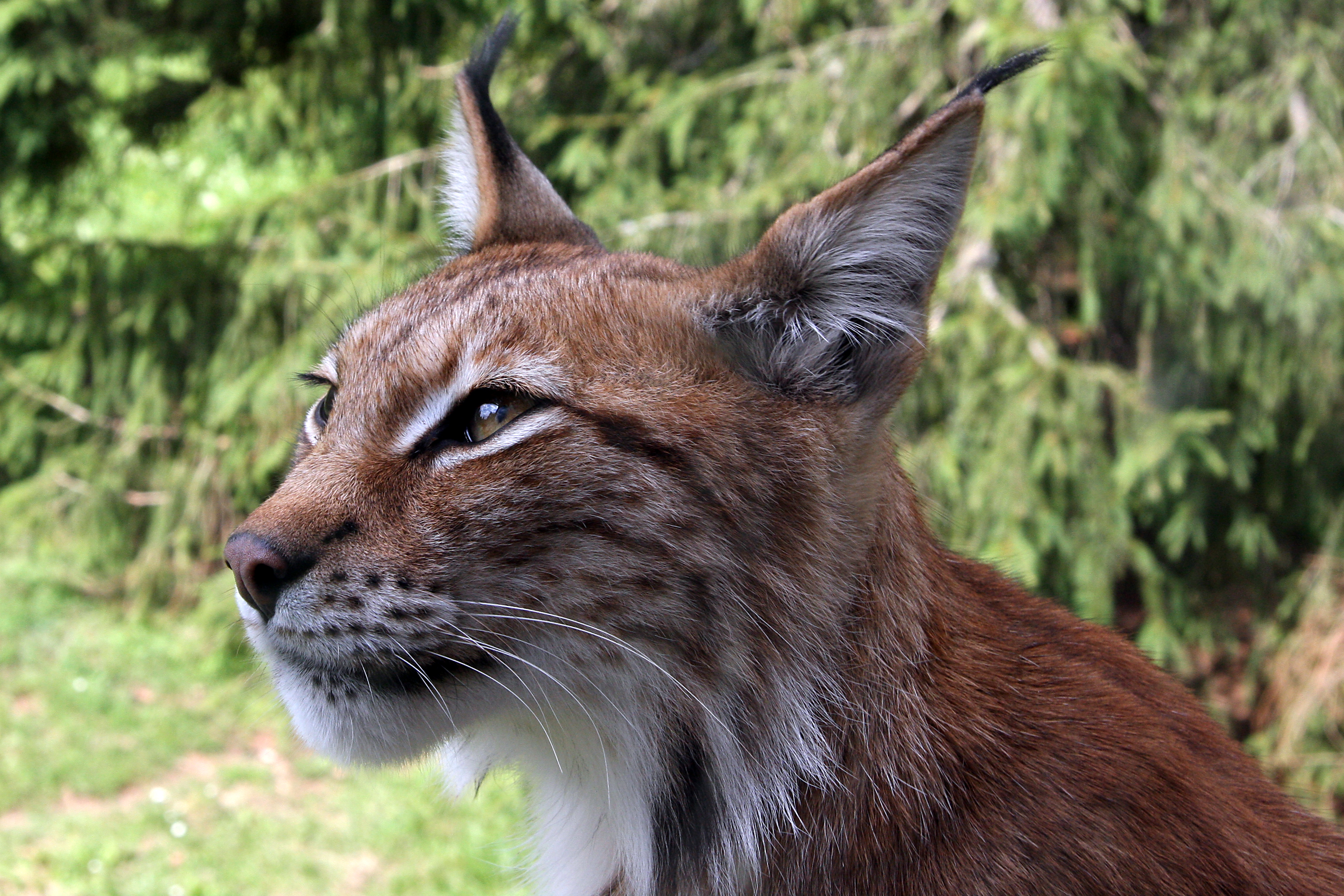 An eurasian lynx at Skåne Zoo (Swedish: Skånes djurpark), near Höör, Scania, southern Sweden.